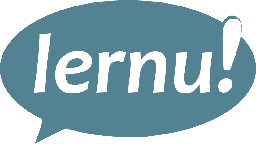 Logo of Website